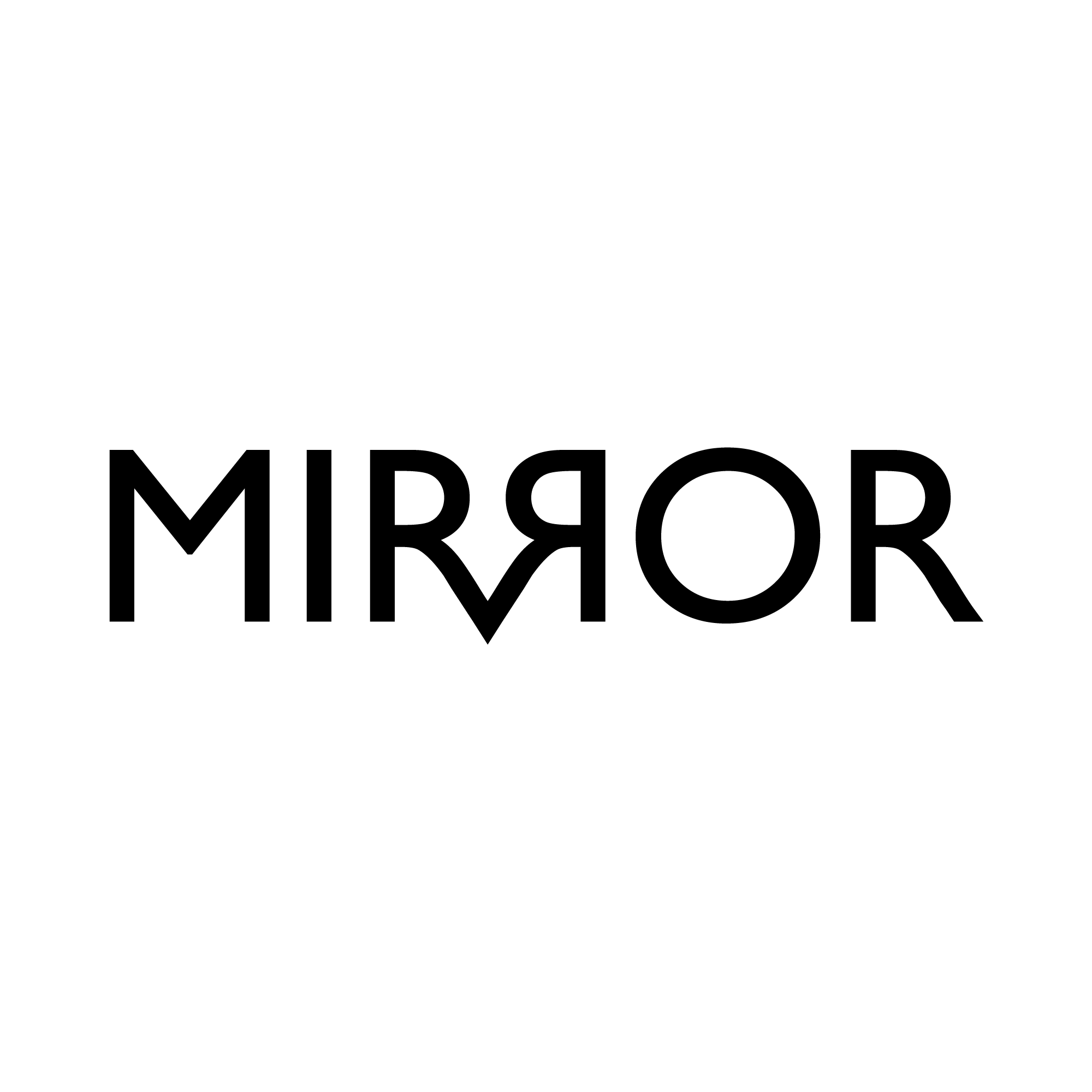 This image refers to the official Mirror srl social ecommerce app